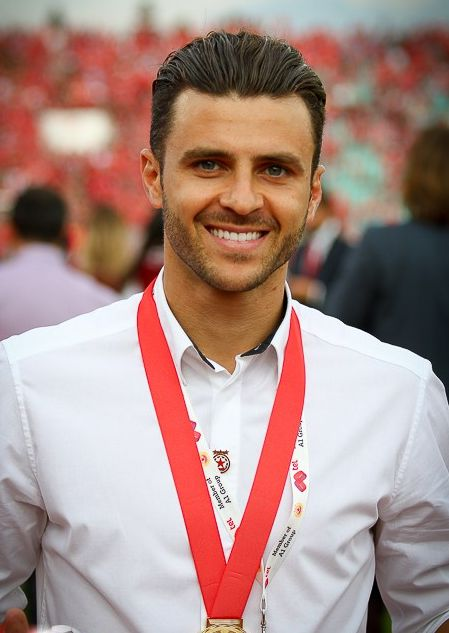 Aluísio Chaves Ribeiro Moraes Júnior (born 4 April 1987), commonly known as Júnior Moraes, is a Brazilian professional footballer who plays for Ukrainian club Dynamo Kyiv as a forward.